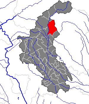 This map shows the area of the Gemeinde (municipality) Strallegg in the Bezirk (district) Weiz, Styria, Austria.